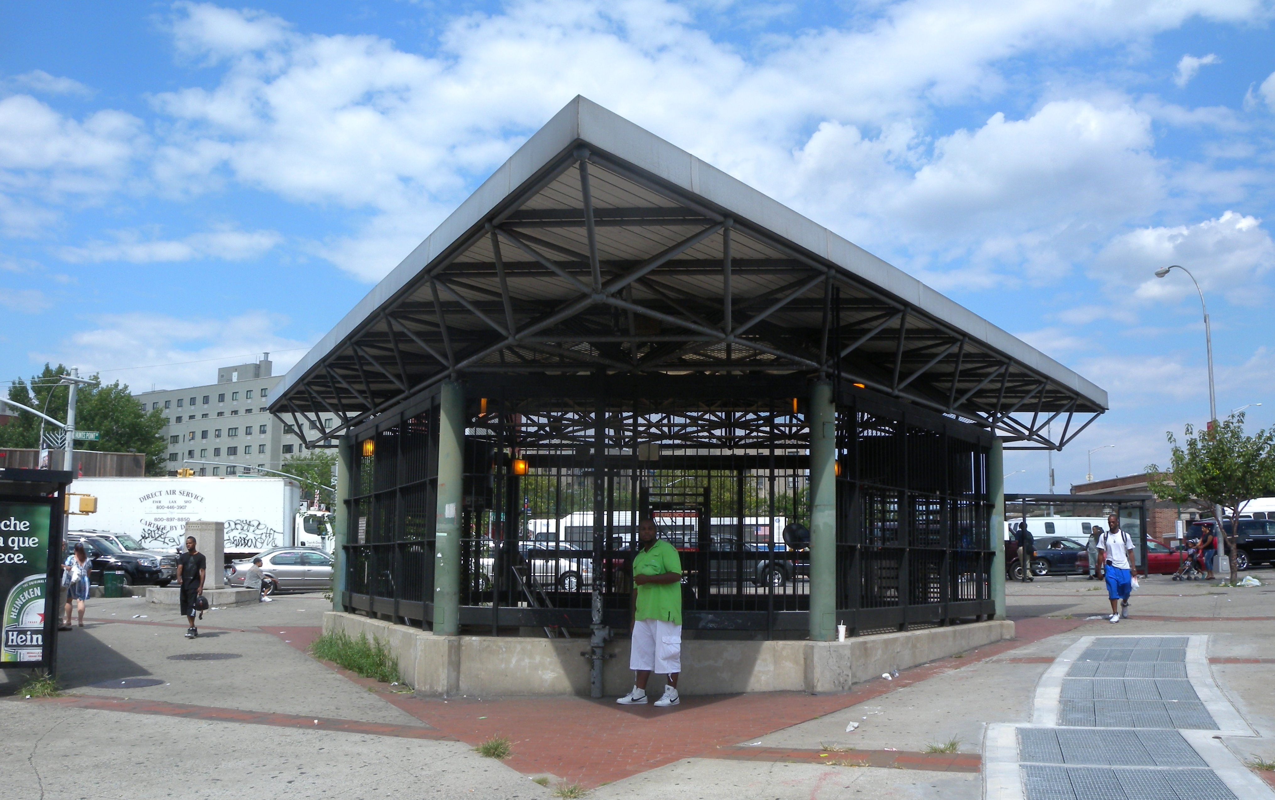 Looking northeast at southwestern steel Hunts Point Avenue station house, exit only, on a mostly sunny early afternoon. War memorial in background left.